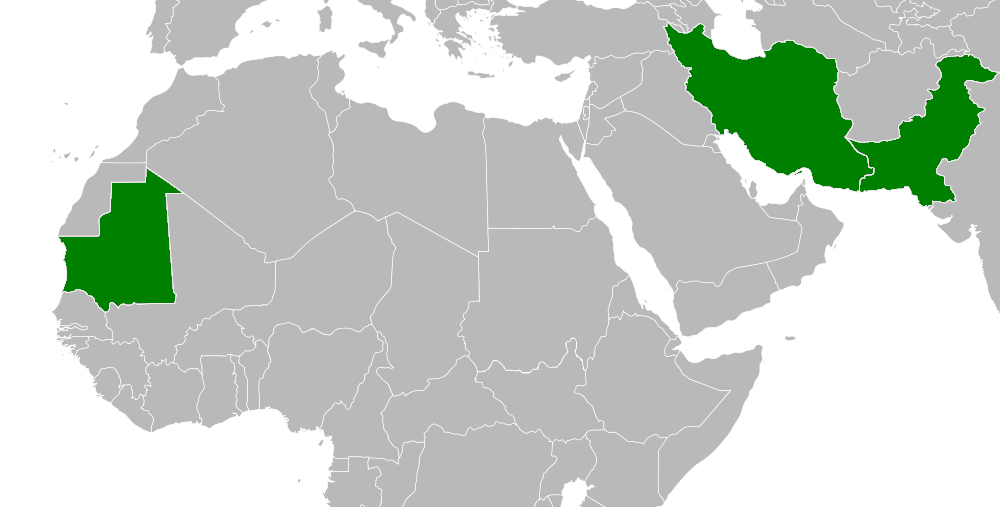 Map showing countries officially called "Islamic Republics"